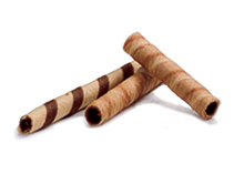 Wafer sticks colored with caramel color